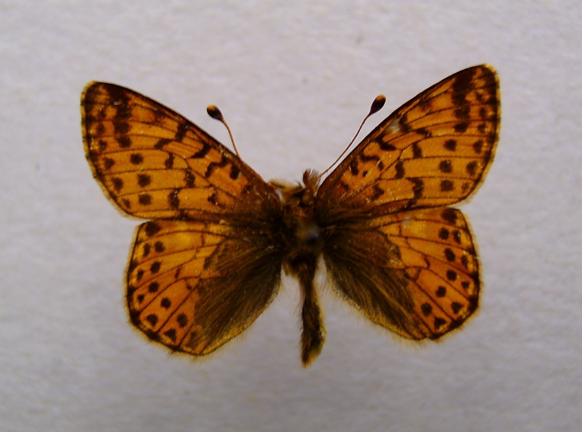 Boloria pales